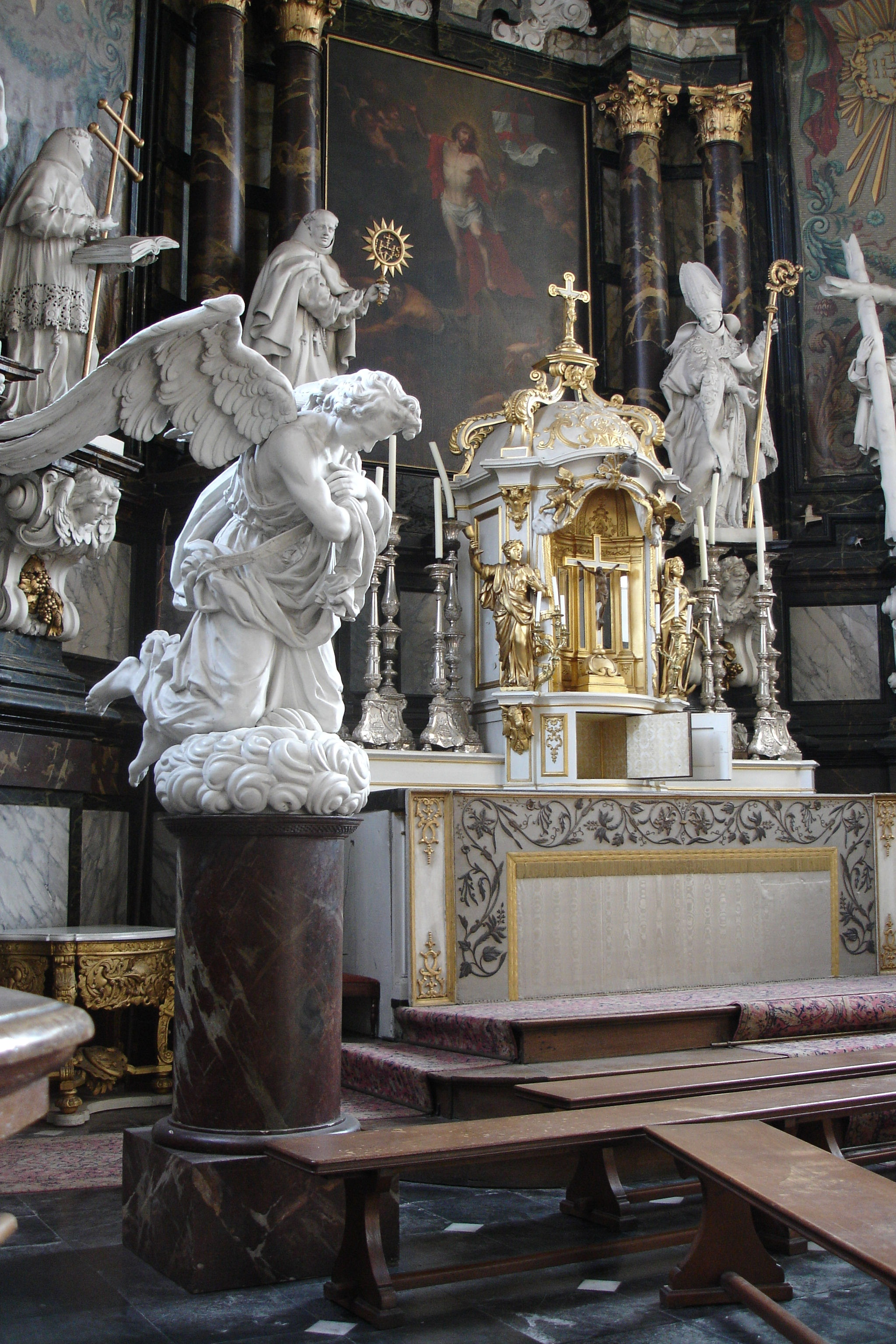 own work (Church of the Sint-Jozef-Klein-Seminarie, Sint-Niklaas, Belgium)